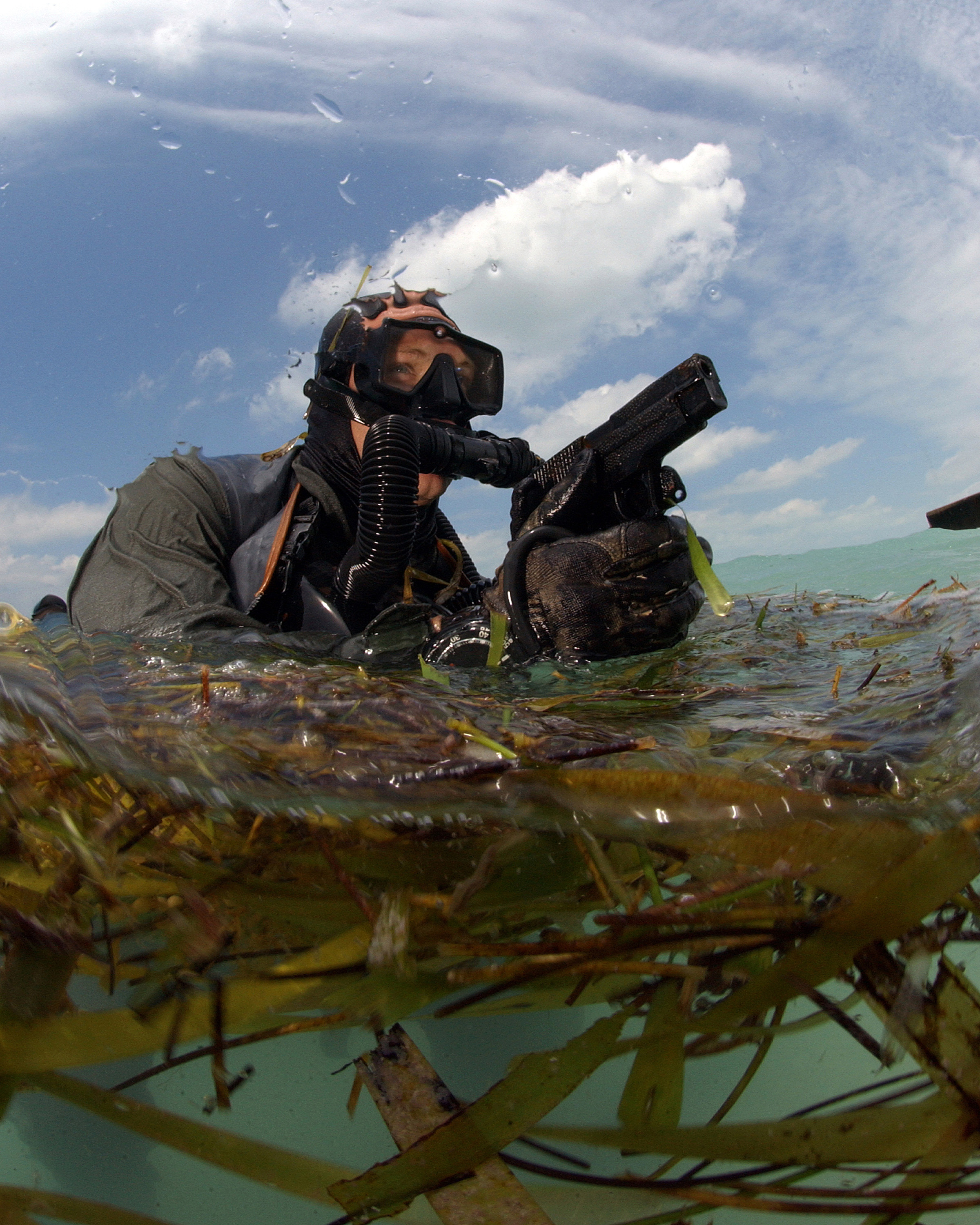 A U.S. Navy SEAL surfaces with his weapon drawn during a combat swimmer training dive on May 18, 2006.